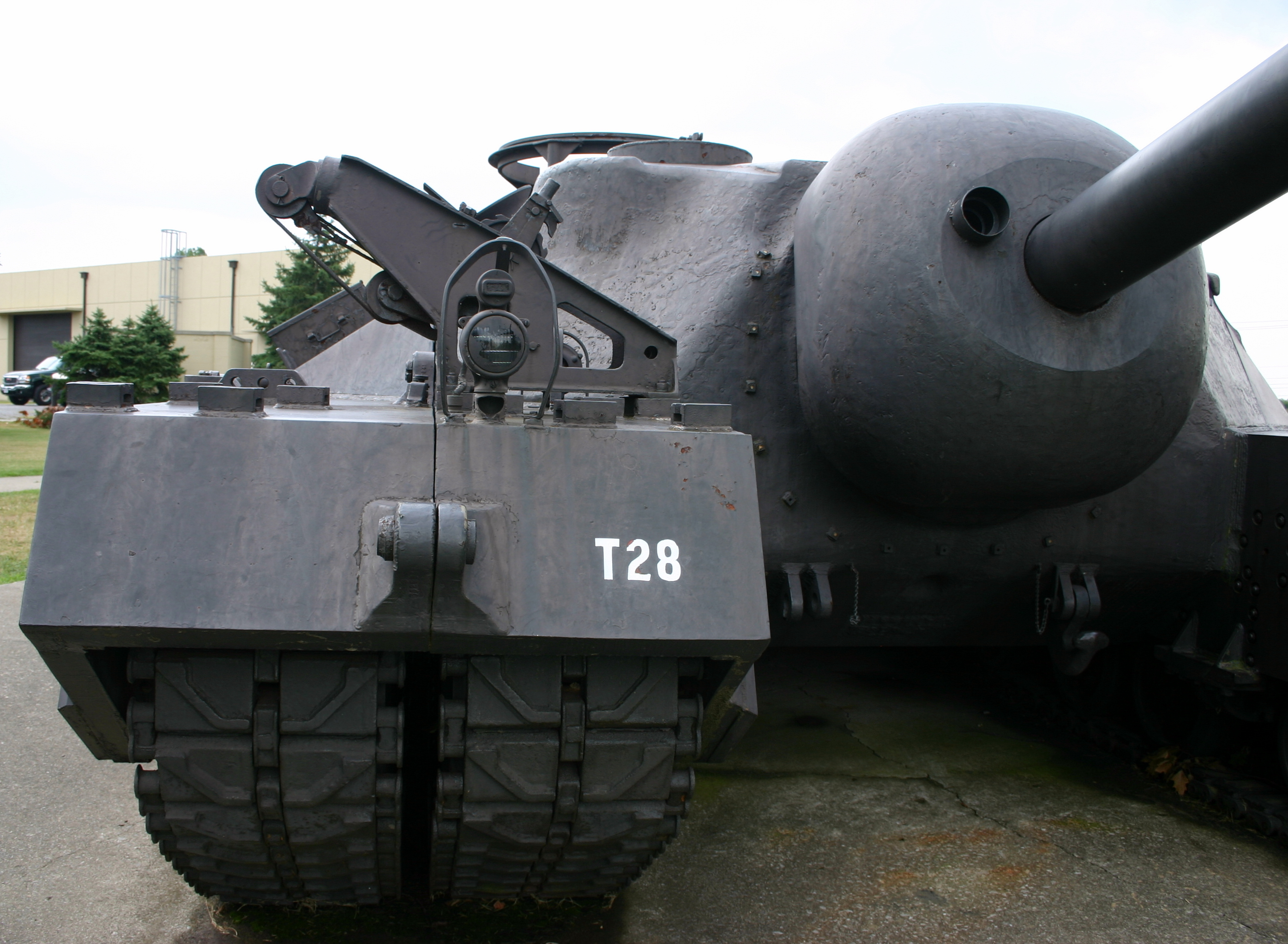 Closeup of T28 Super Heavy Tank showing the double tracks.